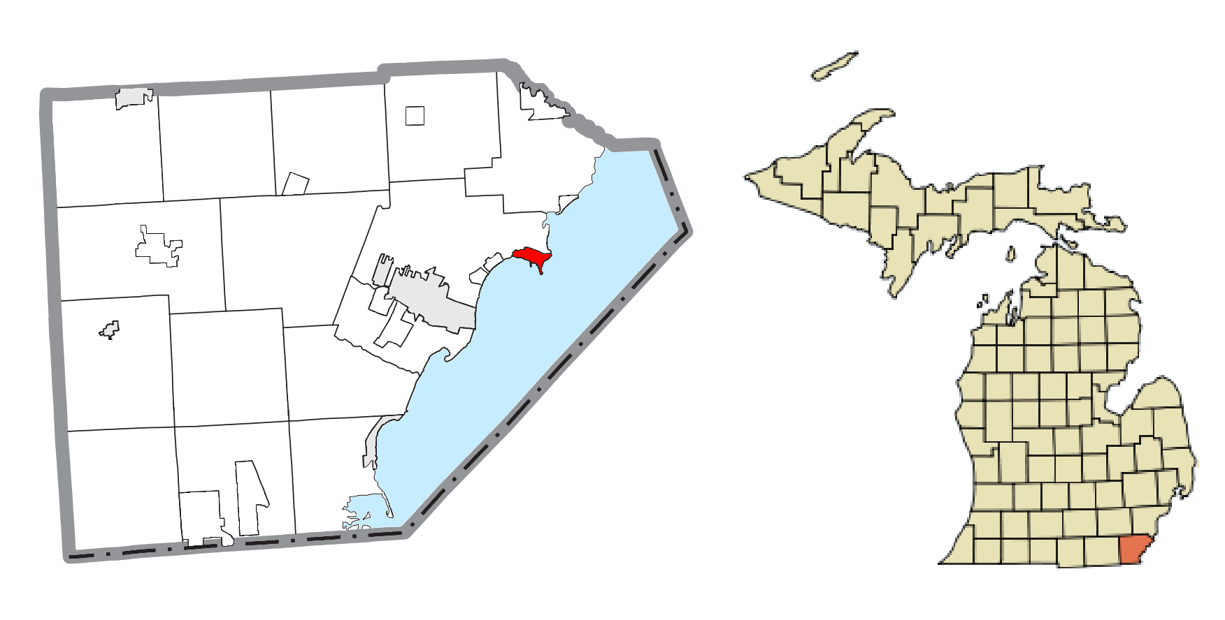 Stony Point, MI